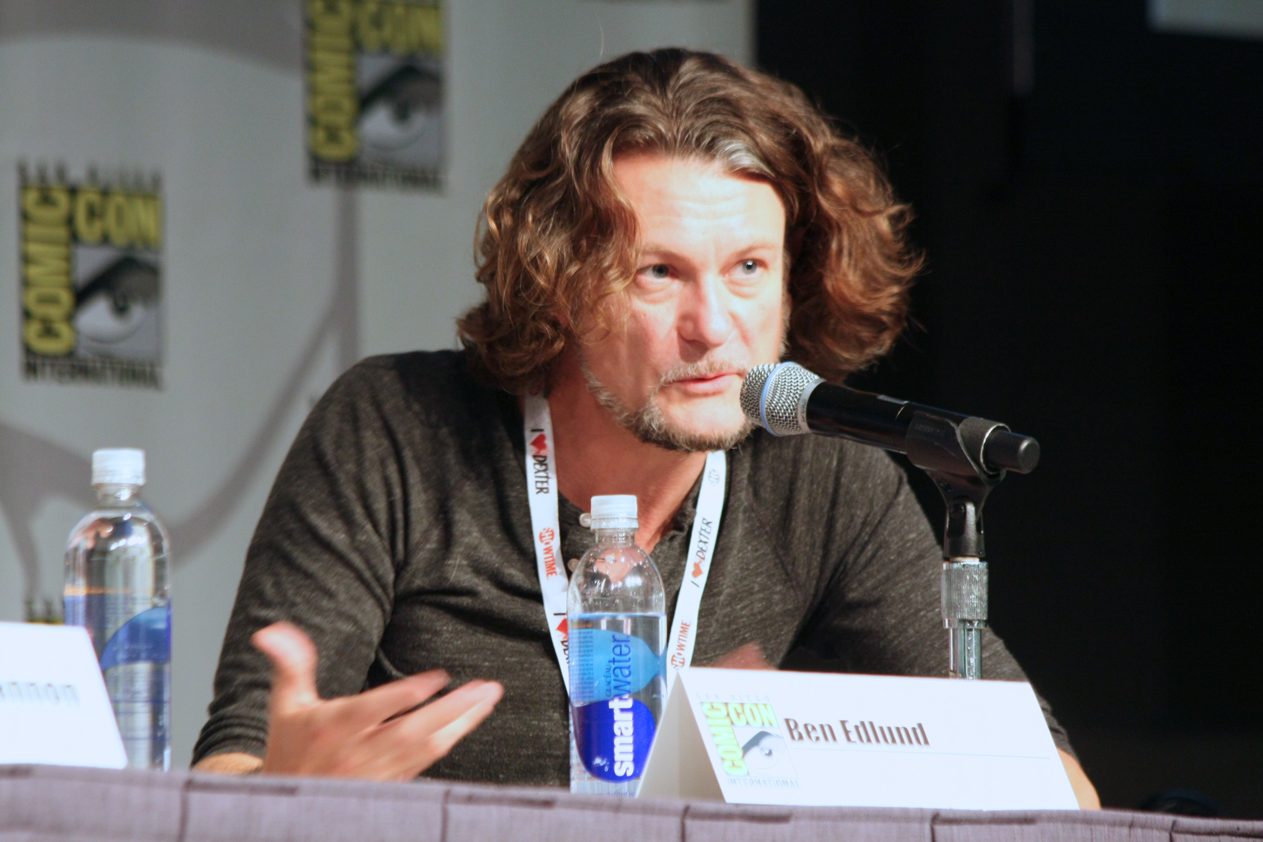 Ben Edlund Revolution cast and crew members at the 2013 Comic Con.